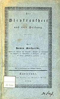 Louis Bochardt: Die Bleykrankheit und ihre Heilung